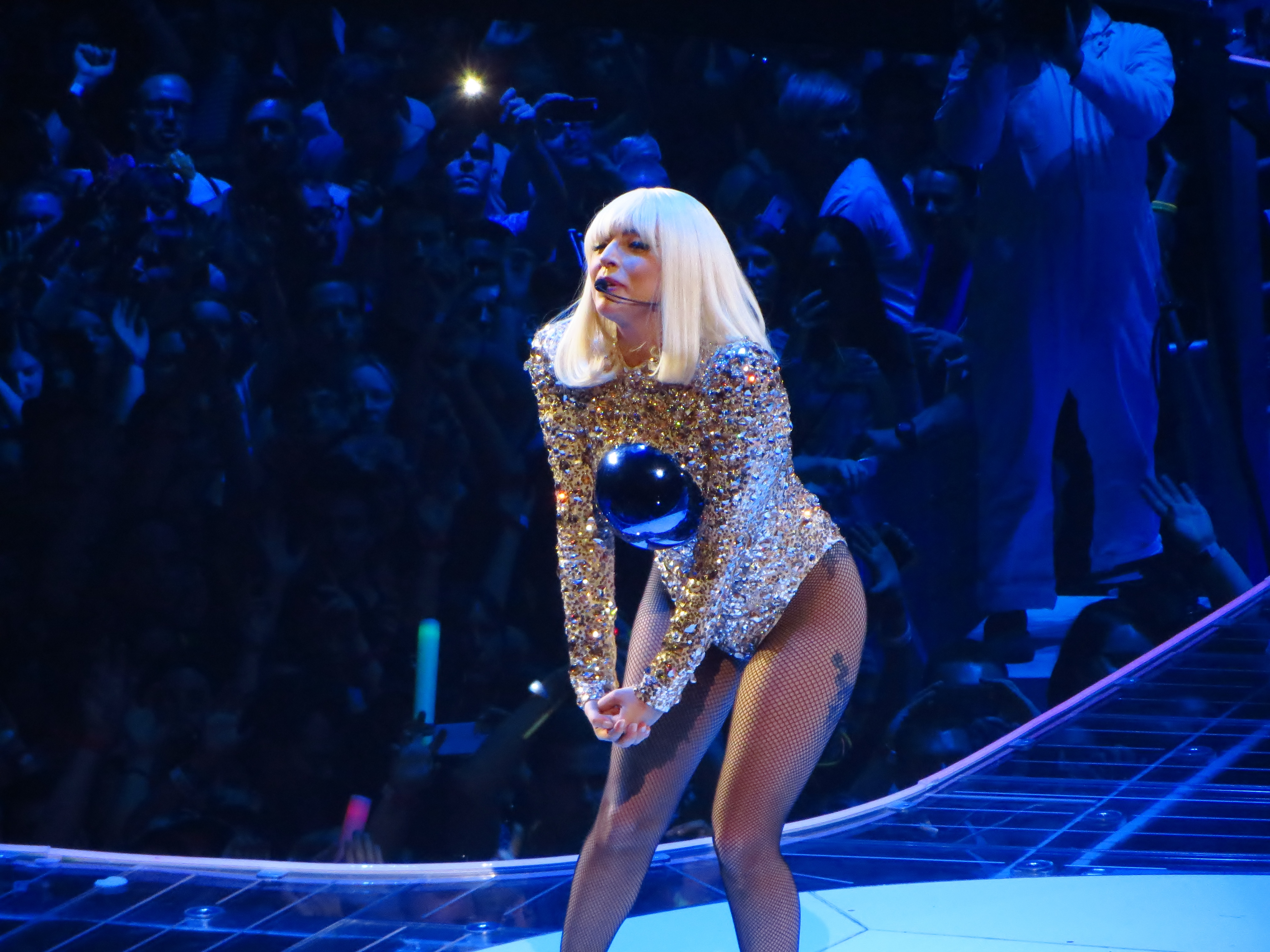 Lady Gaga, ARTPOP Ball Tour, Bell Center, Montréal, 2 July 2014 (8) Gaga performing on ArtRave: The Artpop Ball tour